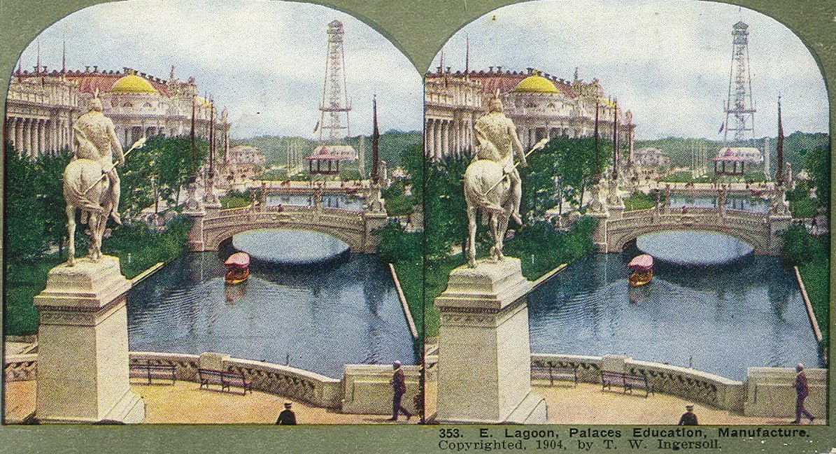 Stereocard view of 1904 World Fair, Louisiana Purchase Exposition, St. Louis, Missouri. Original caption: EAST LAGOON, PALACES OF EDUCATION AND MANUFACTURE.This vista along the East Lagoon toward the Tower of Wireless Telegraphy was much admired. At the extreme left is seen the Palace of Education, joined in the middleground by the Palace of Manufacture. The steel tower of the wireless telegraphy station was located near the Press Building and was connected with antoher station near the American Reservation. Messages were sent from the fair grounds to many distant cities during the Exposition. The tower shown in the picture was 300 feet high. An elevator carried visitors to the top, where a magnificent view of the exposition grounds and their surroundings awarded one for the trouble of riding up. The central exhibit of the De Forrest Wireless Telegraph Company, who operated the apparatus, was in the Palace of Electricity, where wondering throngs always surrounded the operators.